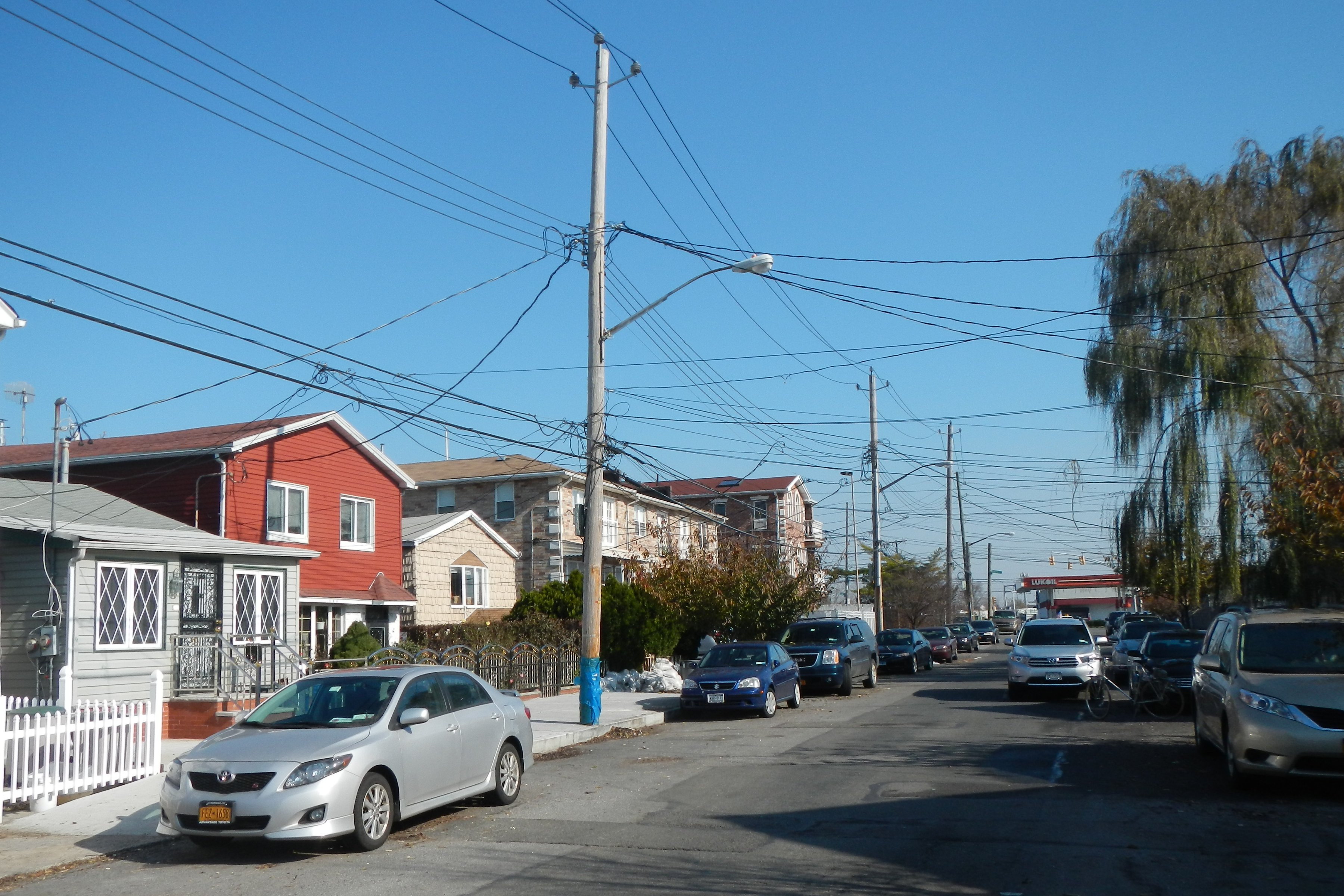 Looking northeast at Bay 53rd Street on a sunny midday. ZIP 11214.